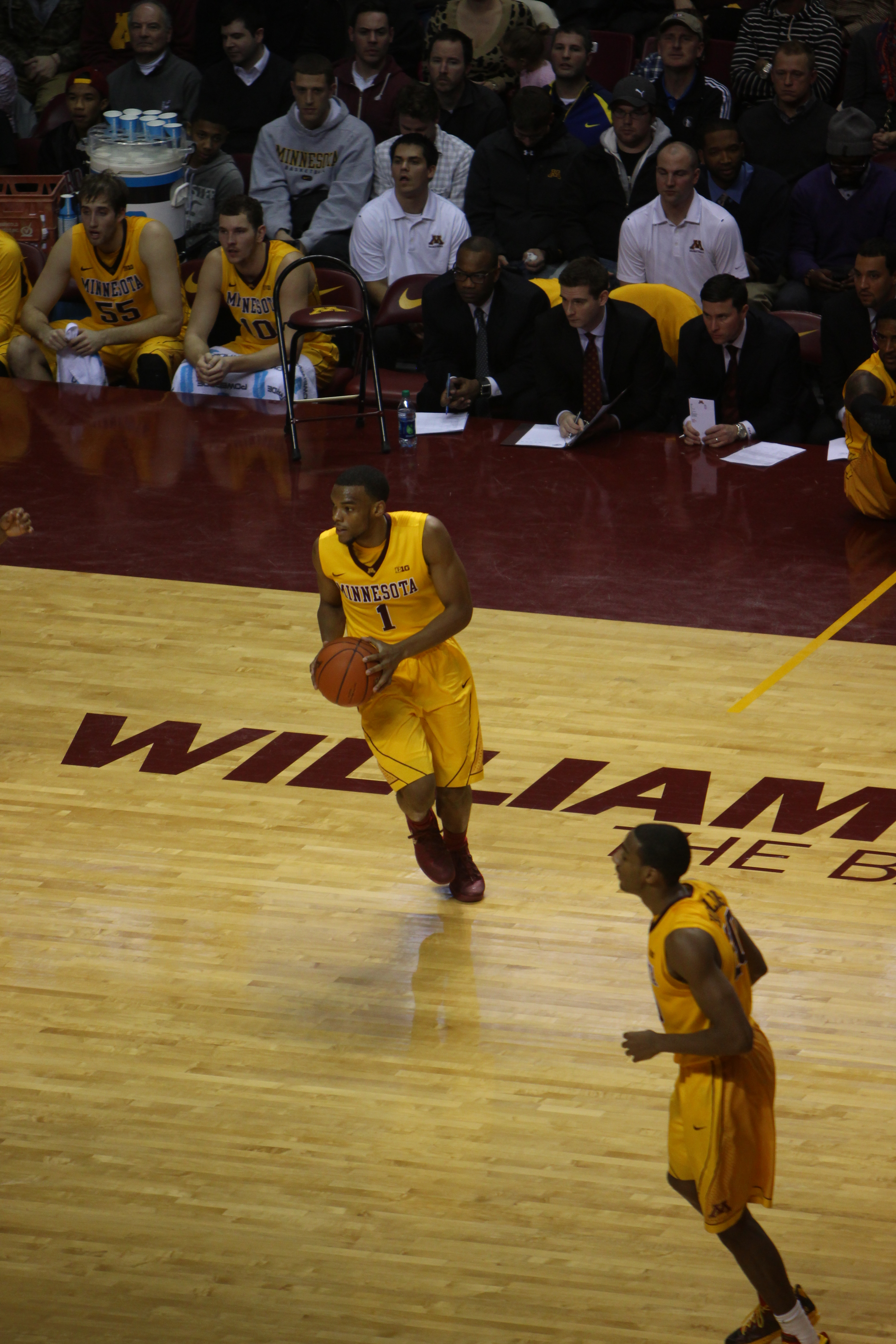 Andre Hollins of the w:2013–14 Minnesota Golden Gophers men's basketball team